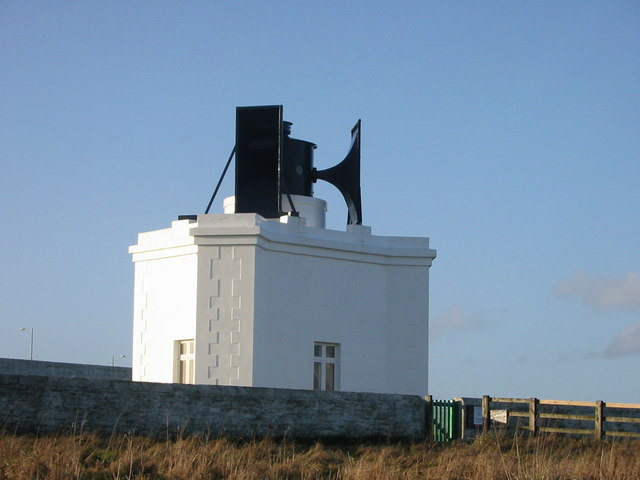 Foghorn at Souter Lighthouse.